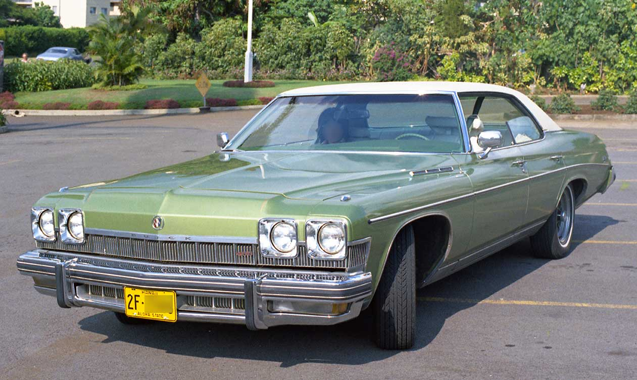 1974 Buick LeSabre Luxus 4-door sedan hardtop, photographed when it was new.